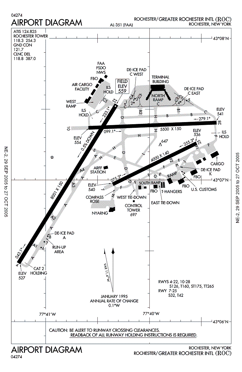 FAA diagram of Greater Rochester International Airport (ROC) in Rochester, New York, United States.